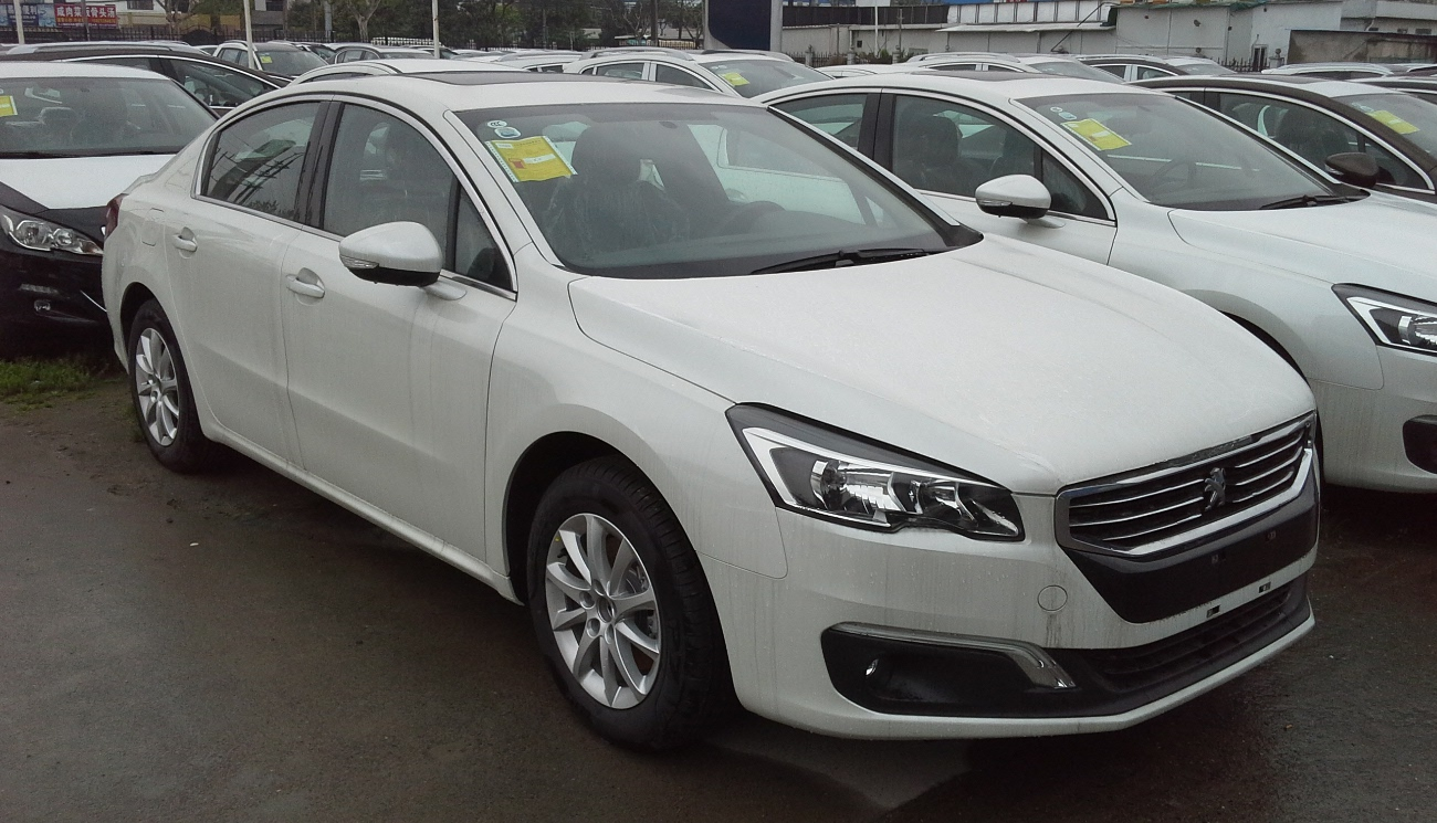 Peugeot 508 facelift photographed in Shanghai, China.